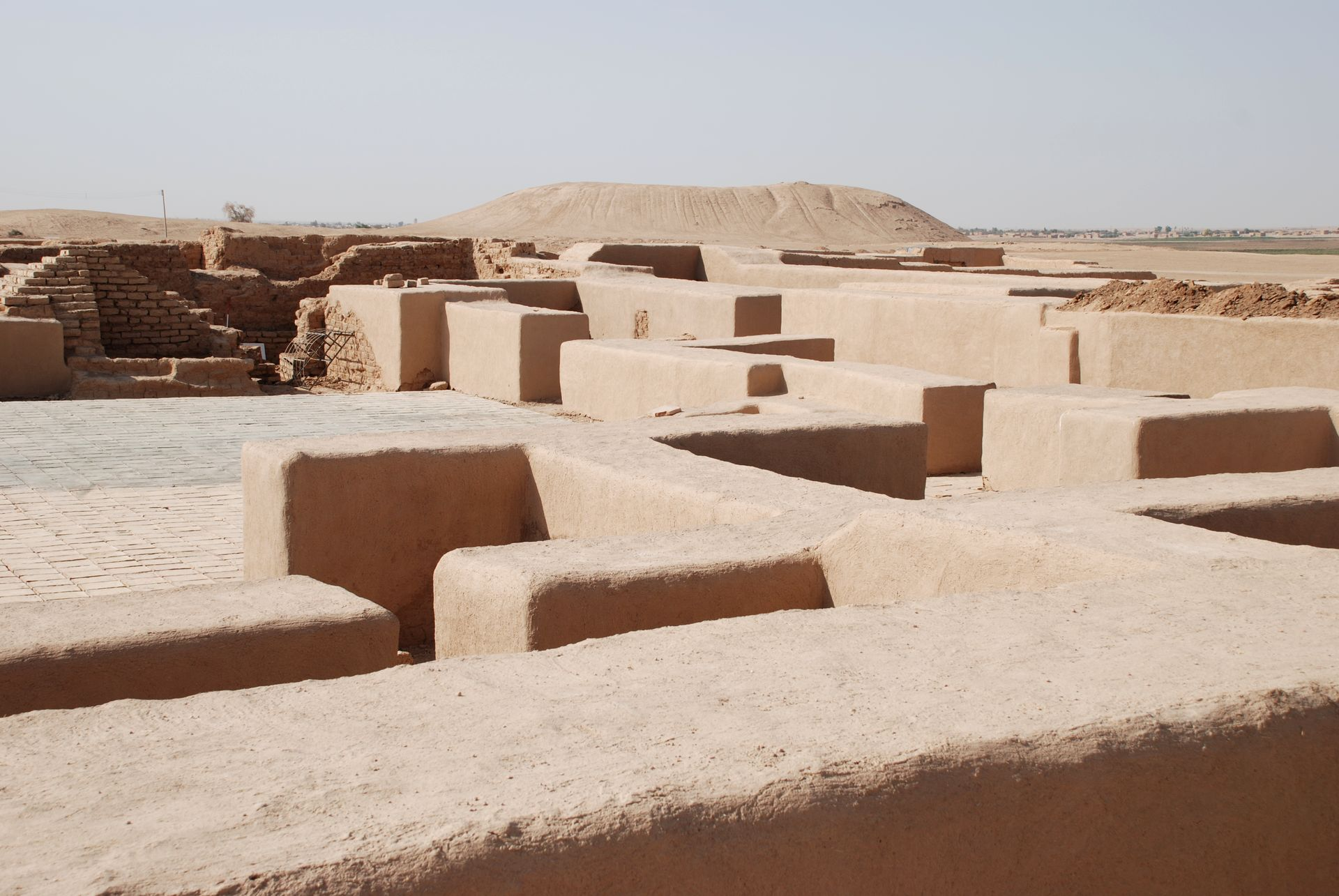 Tell Schech Hamad, Syria, Dur Katlimmu, Red House